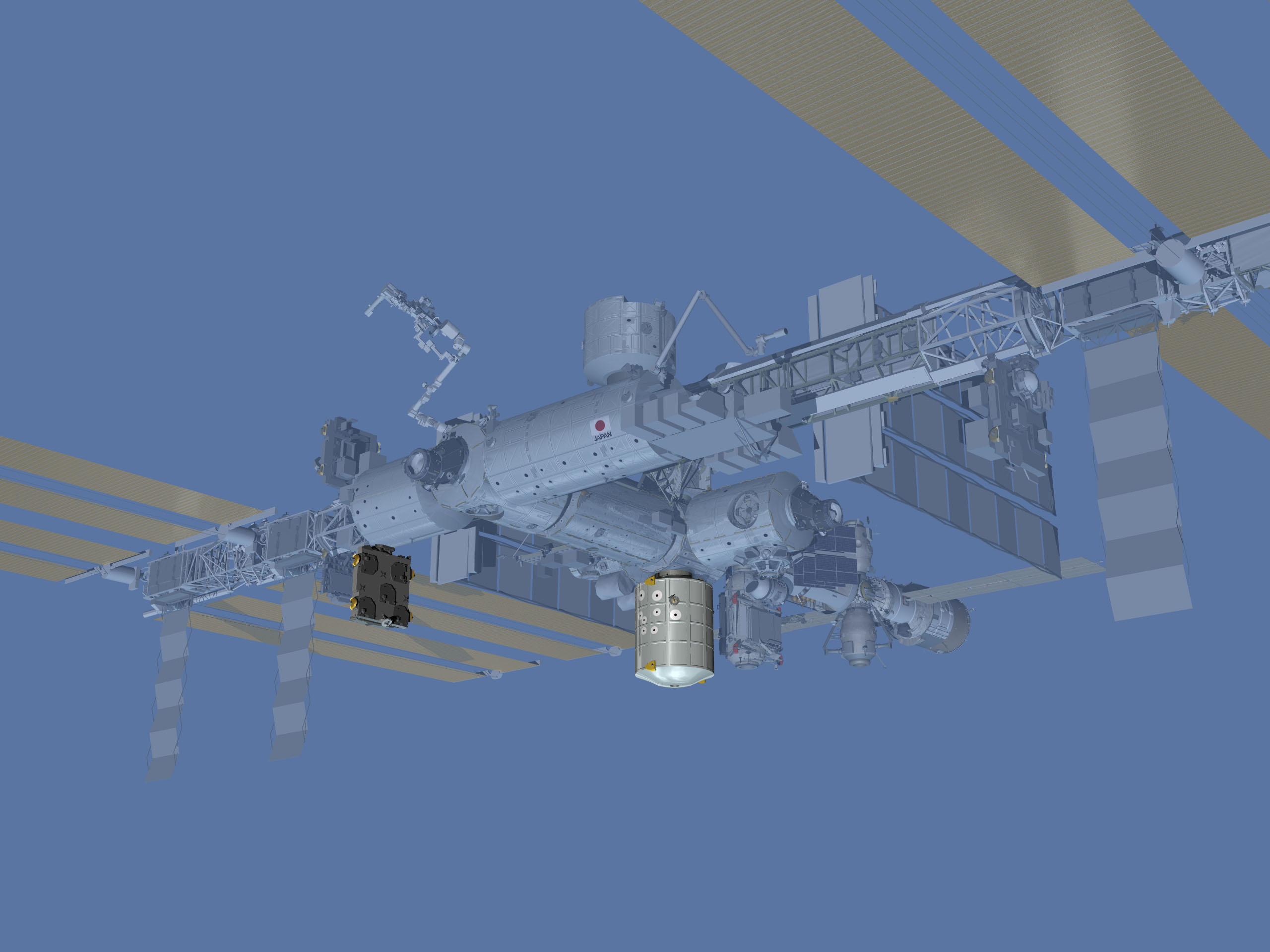 JSC2010-E-131921 --- Computer-generated artist's rendering of the International Space Station as of February 2011. Flight STS-133/ULF5 depicting the addition of the ExPRESS Logistics Carrier 4 (ELC4) and Permanent Multi-Purpose Module (PMM).